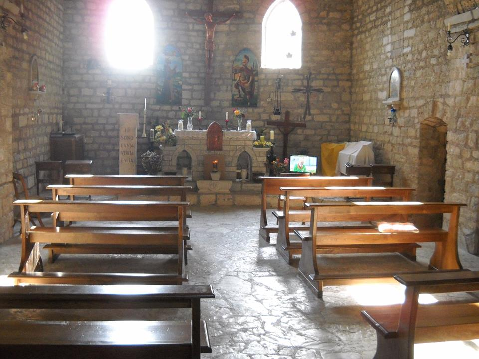 Interno della chiesa dell'eremo di San Leonardo al Volubrio